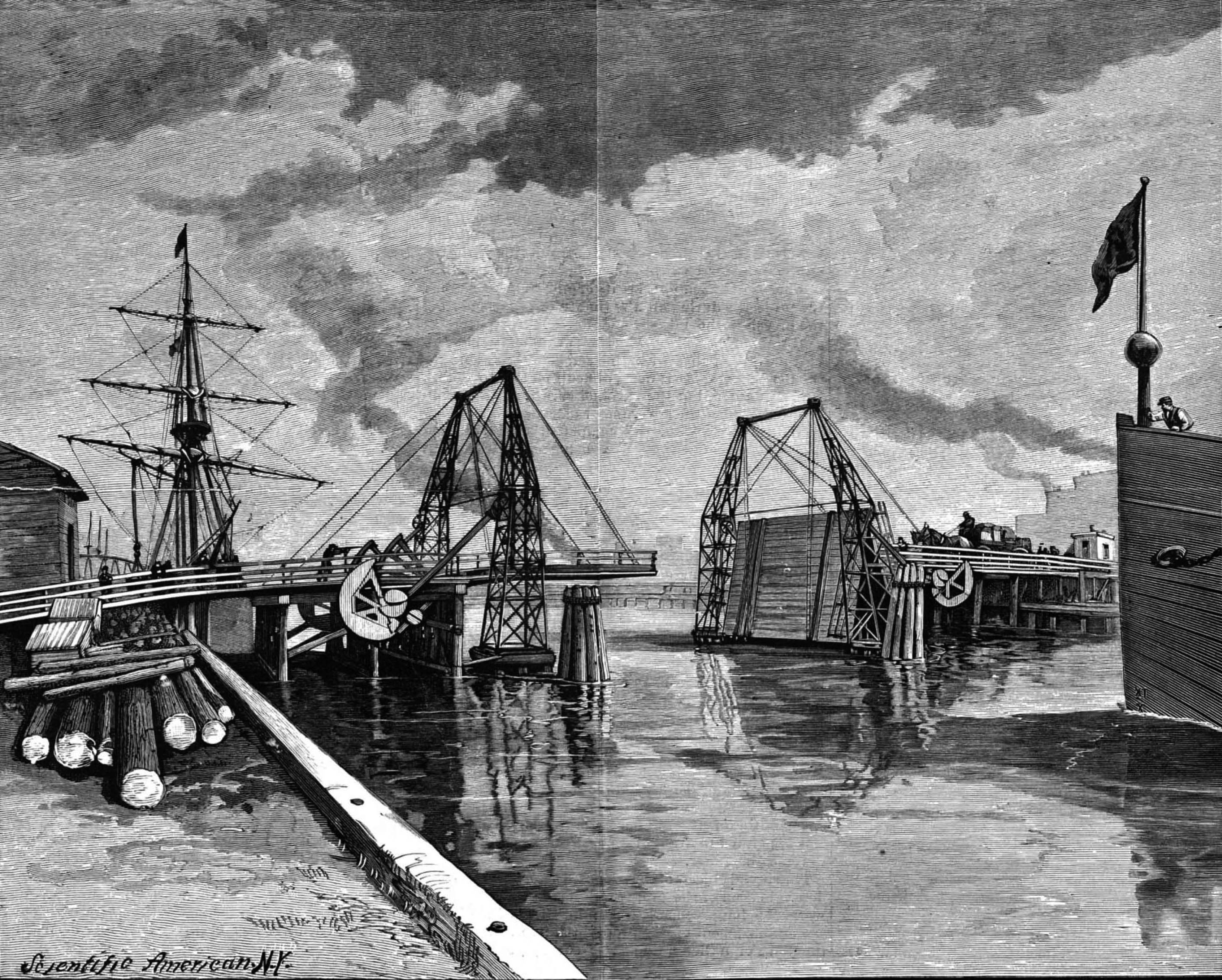 Illustration of Weed Street bridge across the North Branch Canal of the Chicago River from the cover of Scientific American on September 12, 1891.